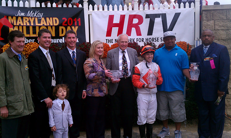 King T. Leatherbury